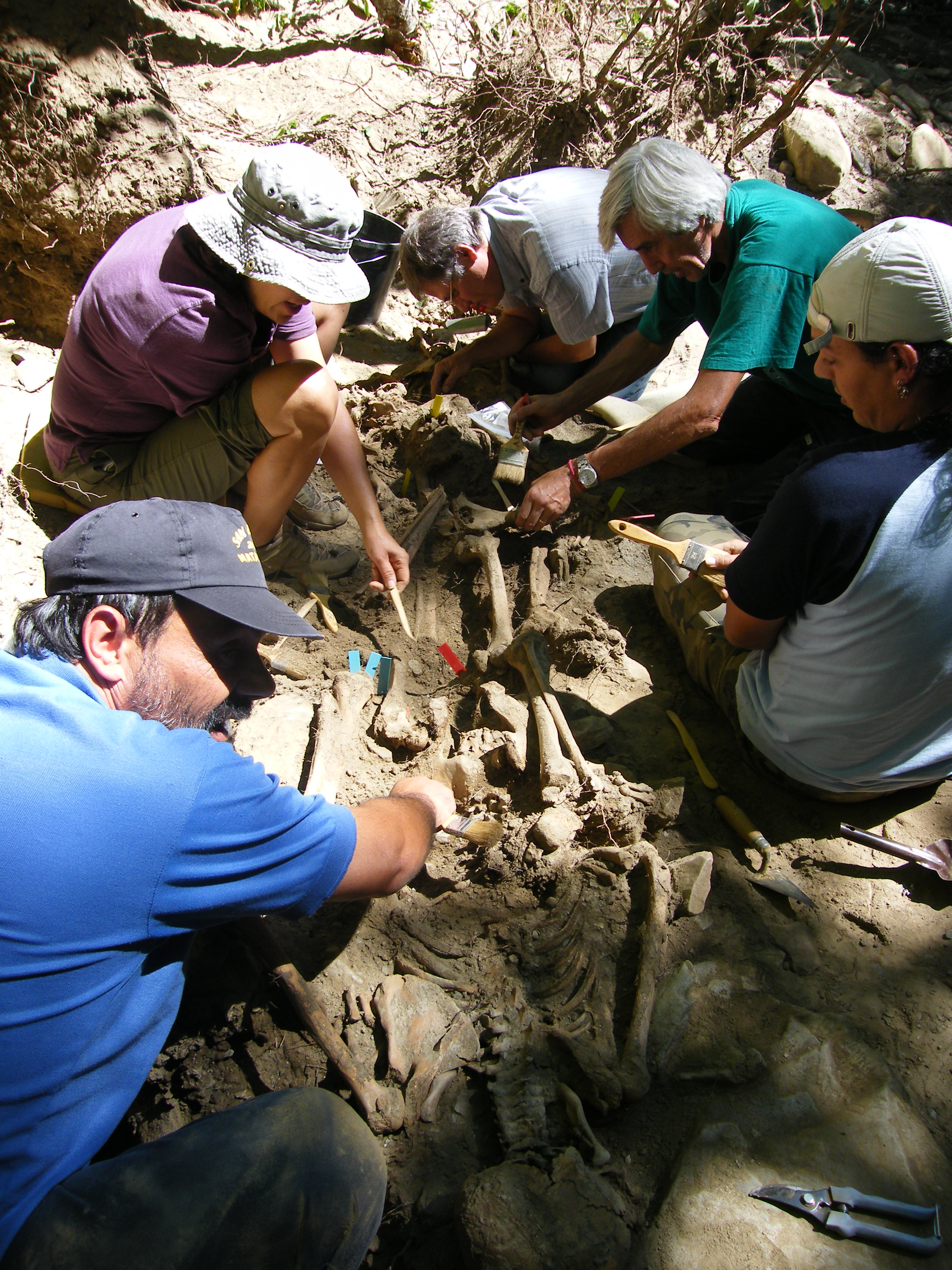 Exhumation, by part of the Association for the Recovery of the Historical Memory (ARMH), of a pit of Spanish Civil War victims.